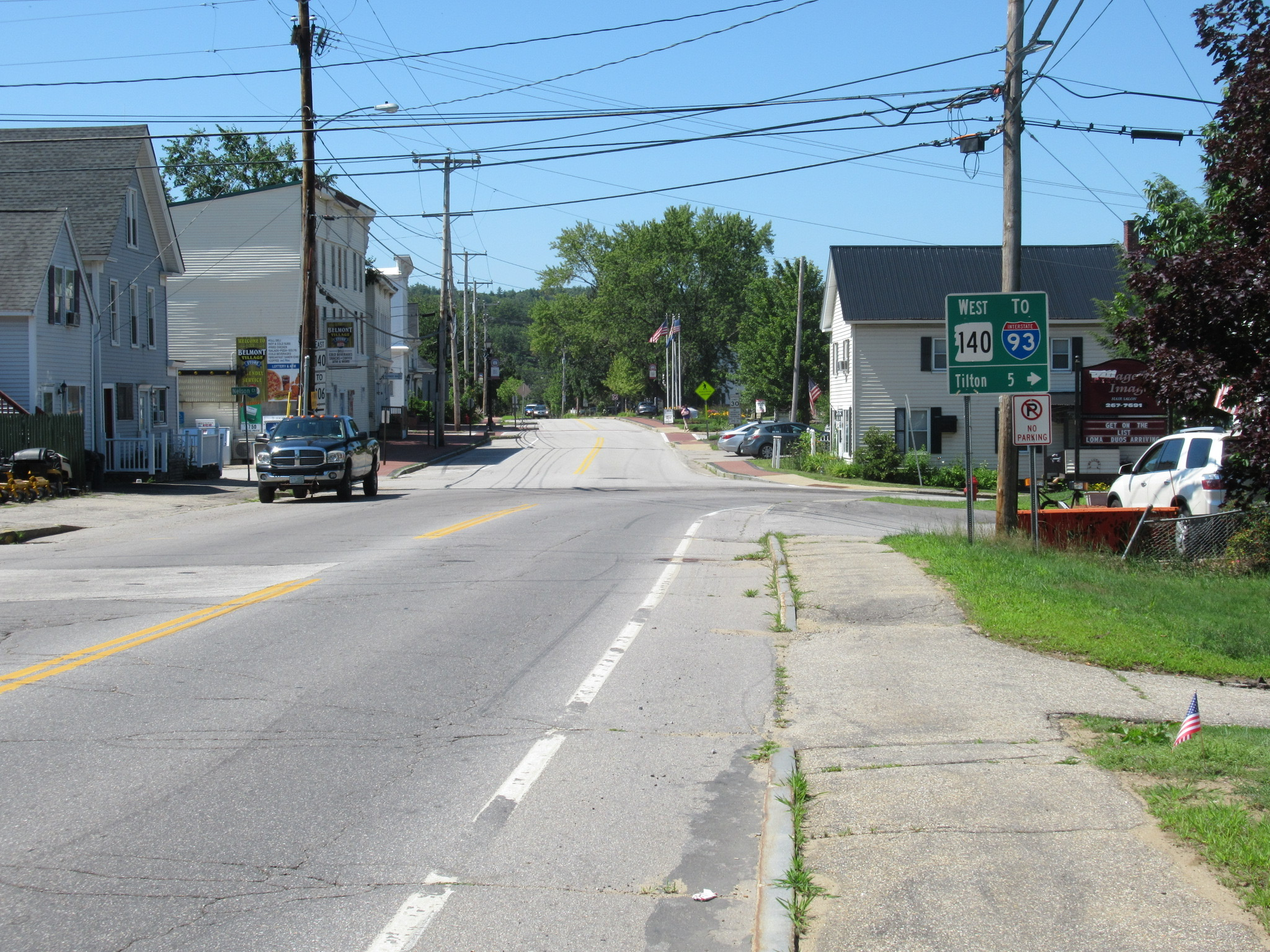 New Hampshire Route 140 in downtown Belmont, New Hampshire